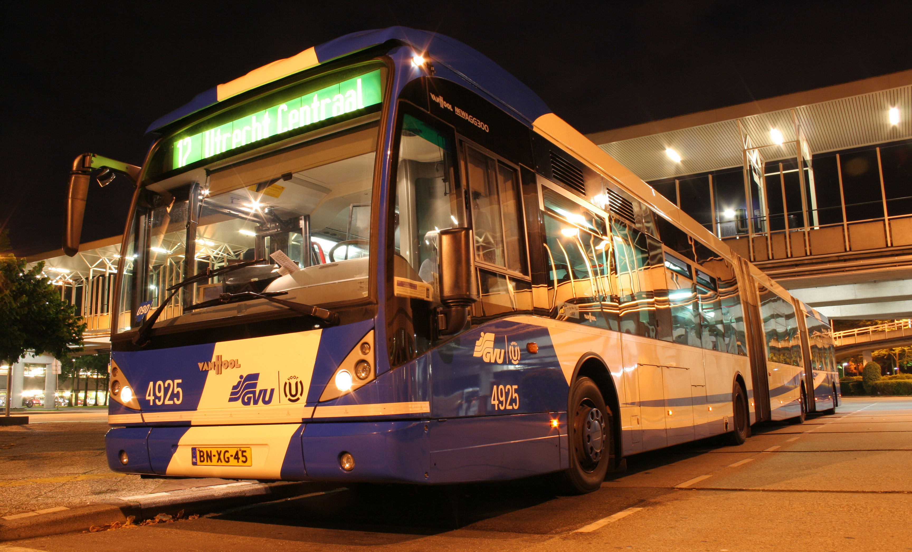 Van Hool new AGG300 in Utrecht.